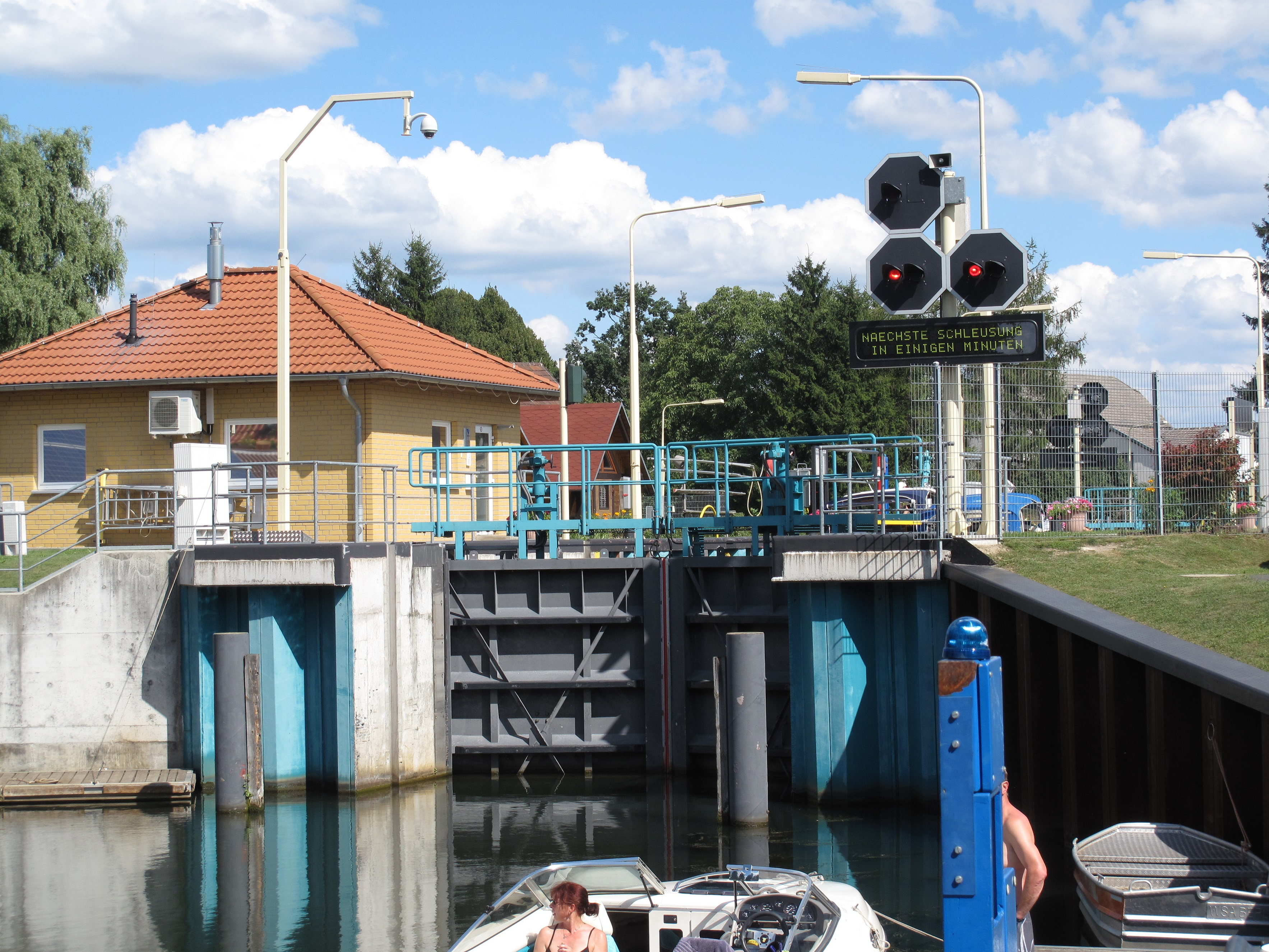 Downstream water of the „Schleuse Storkow“, a canal lock of the Storkower Kanal, which connects the Großer Storkower See with the Wolziger See. It was built in 2003 by replacing the historical lock of 1864/65, which was located slightly east. Storkow is a town in the District Oder-Spree, Brandenburg, Germany.